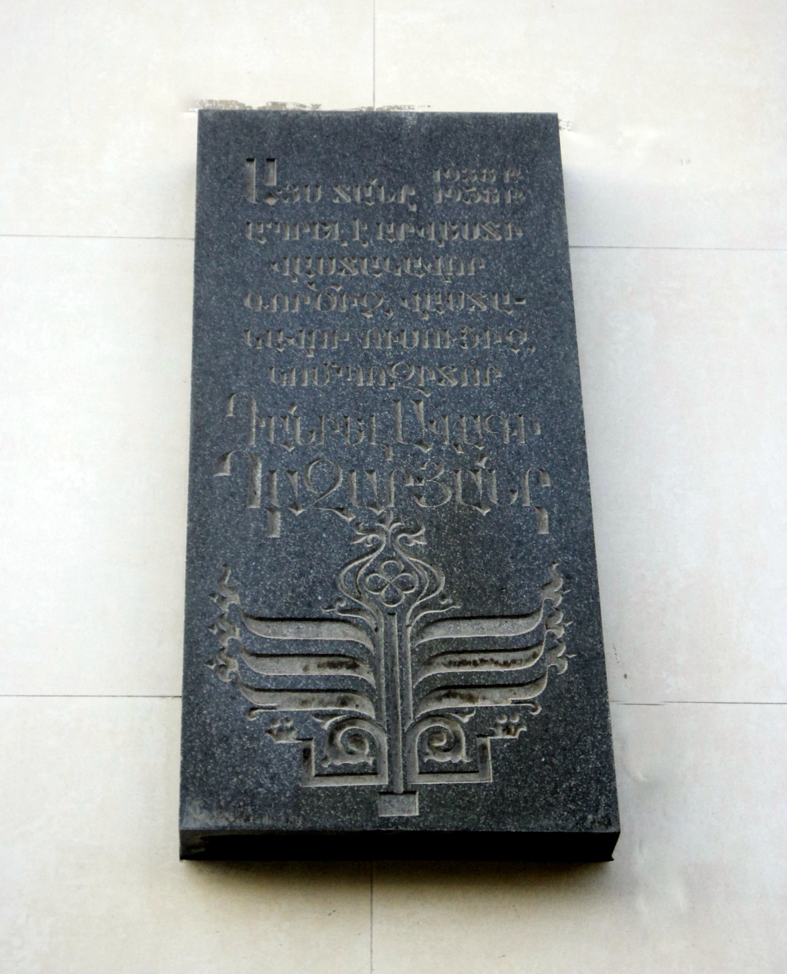 Daniel Ghazaryan's plaque